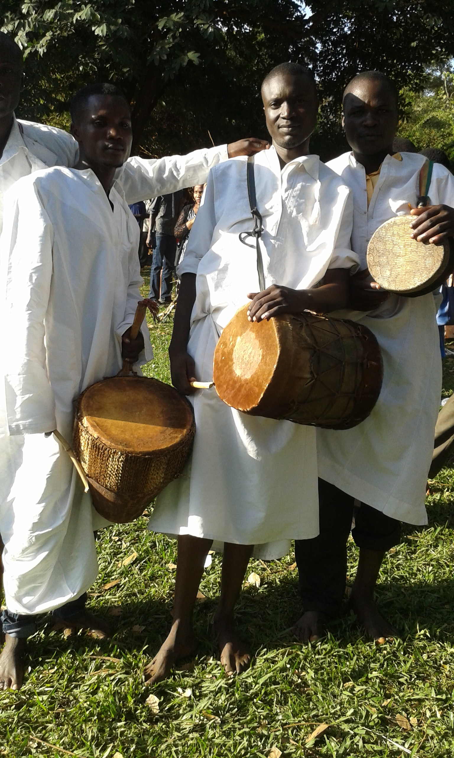 one of the cultural music in uganda called basamia holding drums ready for their music presentation This is an image of music and dance from Uganda